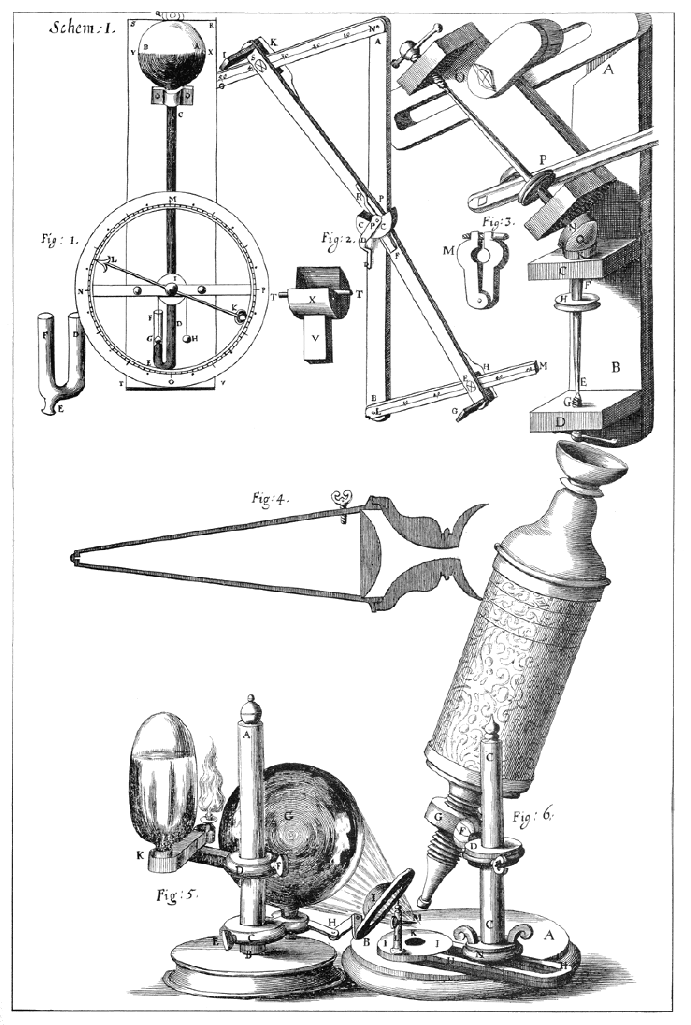 Scheme 1